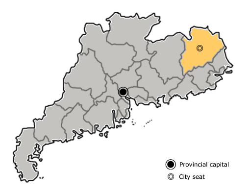 The prefecture-level city of Meizhou is highlighted on this map of Guangdong province, People's Republic of China.